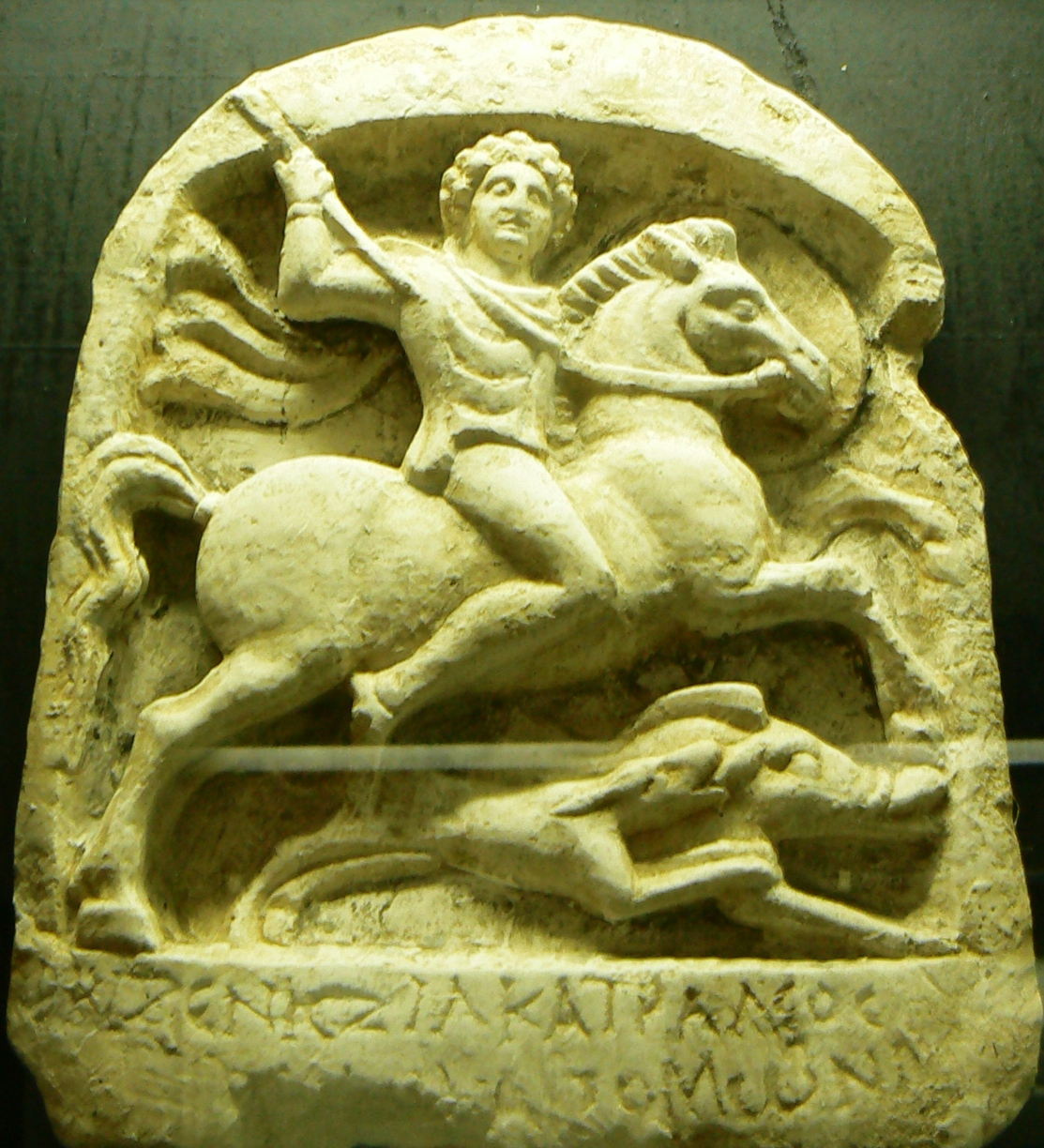 Basrelief of a Thracian god, 3 century BC, exhibited in Teteven History museum